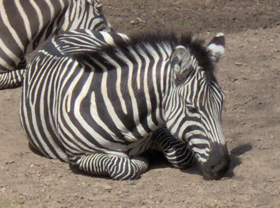 This is my own photo I took in 2005, at the Fort Wort Zoo on a trip to Texas.